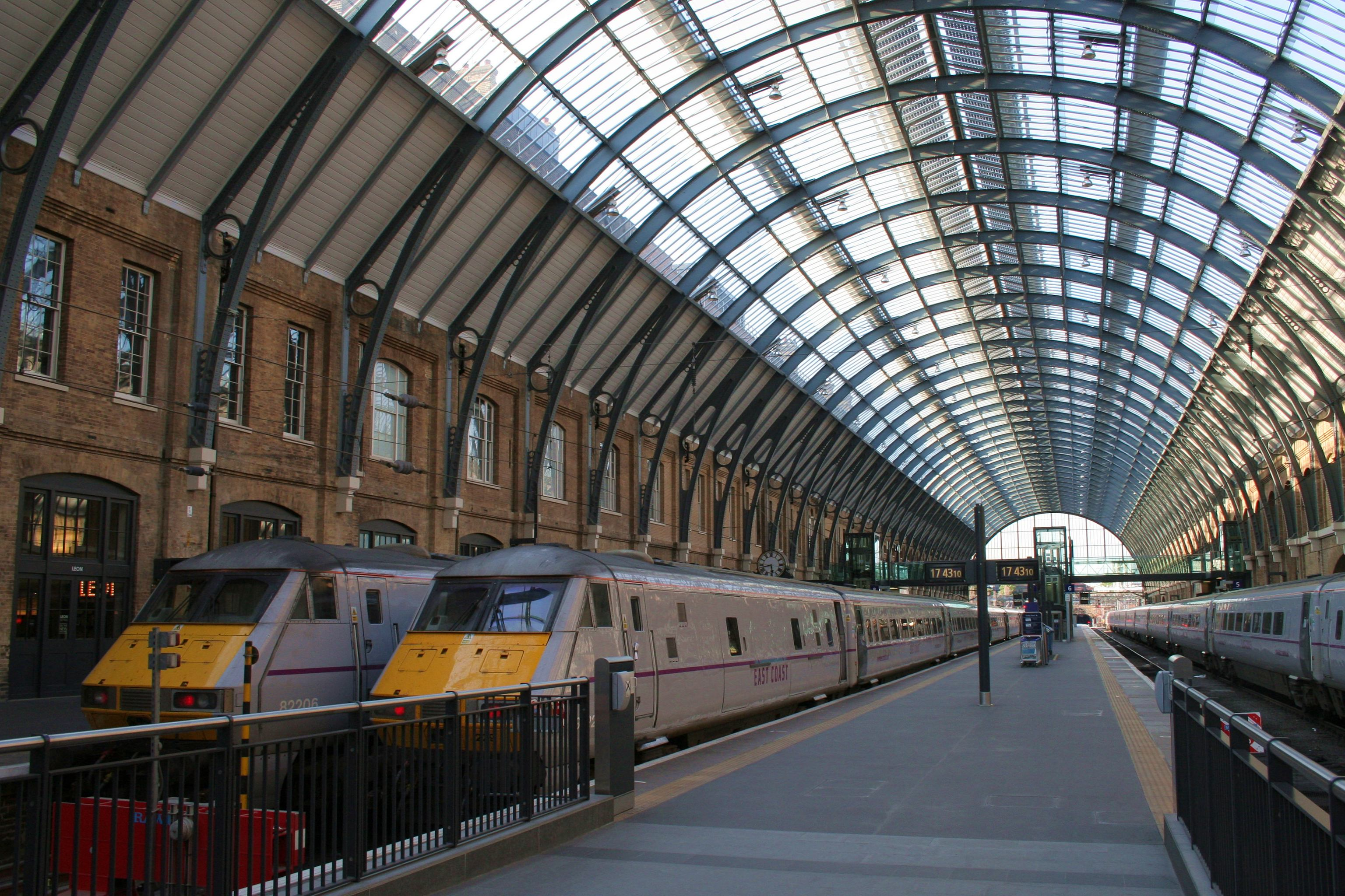 London King's Cross railway station platform 6 after its refurbishment.